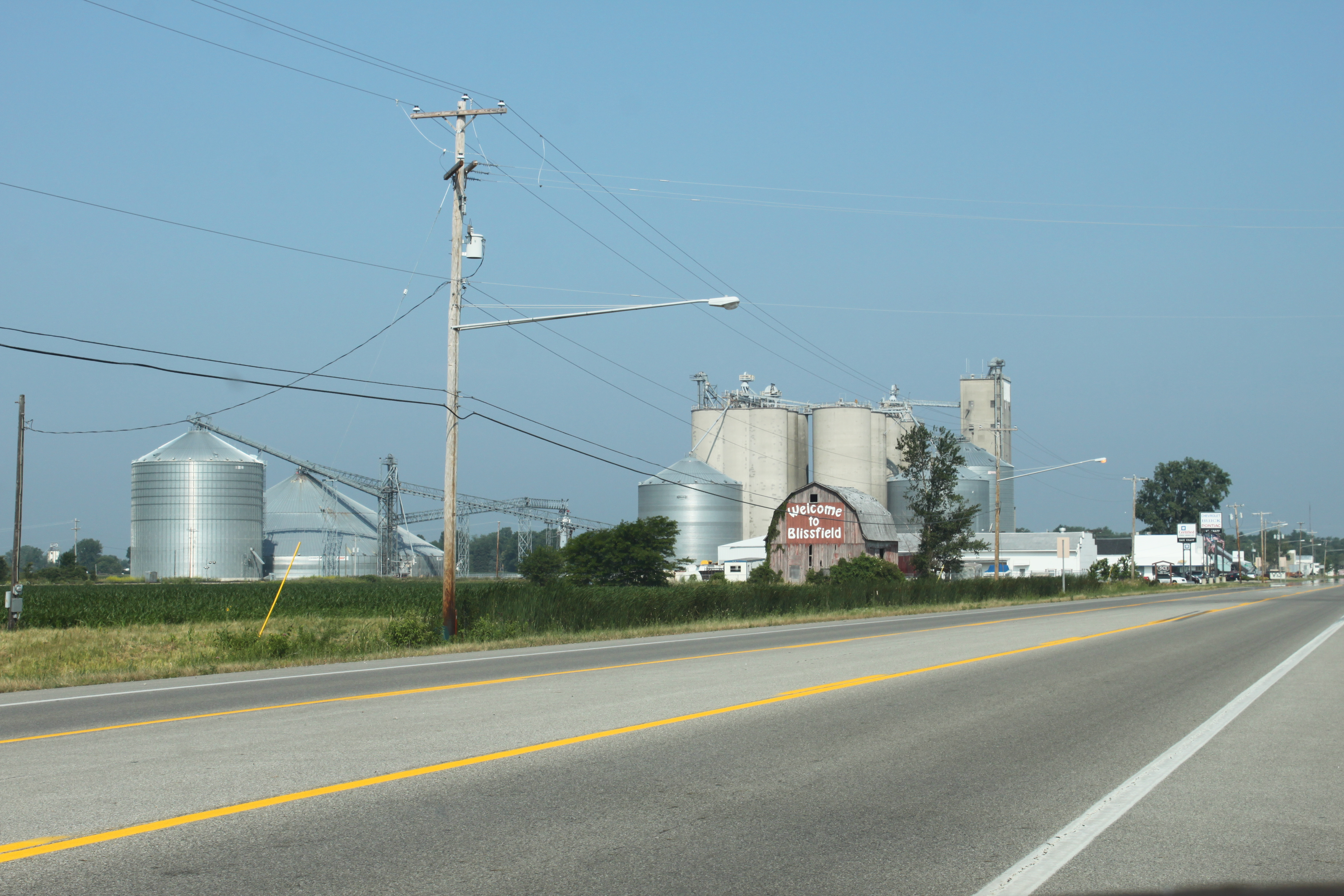 Blissfield Township Michigan, Michigan Agricultural Commodities Inc. grain elevators, 10895 U.S. 223